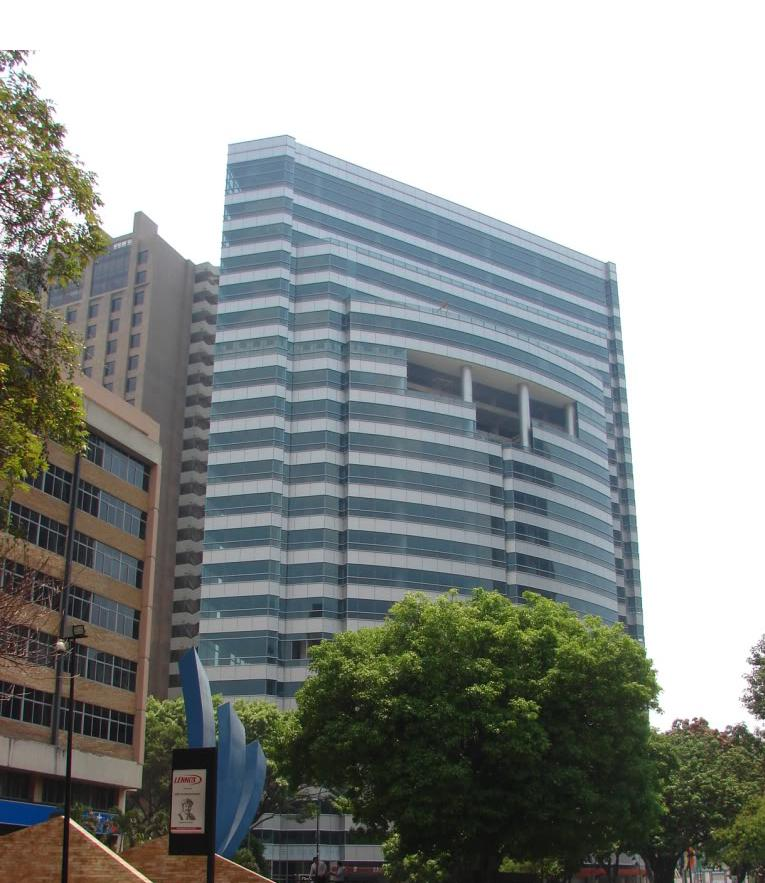 Digitel Tower, Chacao, Caracas, Venezuela.